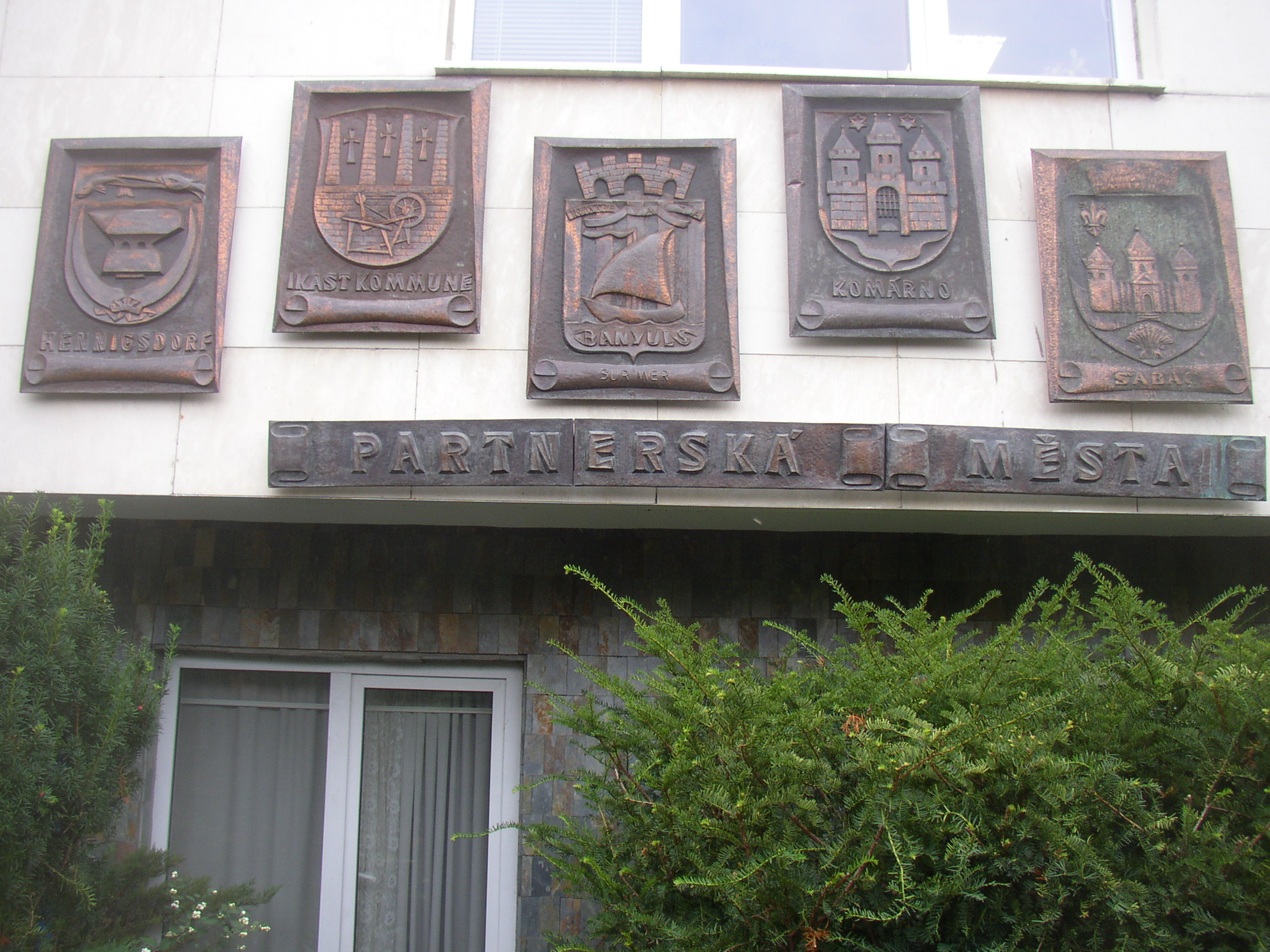 Coats of arms of twin towns/cities on town hall in Kralupy nad Vltavou, Czech Republic. Left to right: Hennigsdorf (Germany), Ikast (Denmark), Banyuls-sur-Mer (France), Komárno (Slovakia) and Šabac (Serbia). The Czech inscription below means TWIN TOWNS.